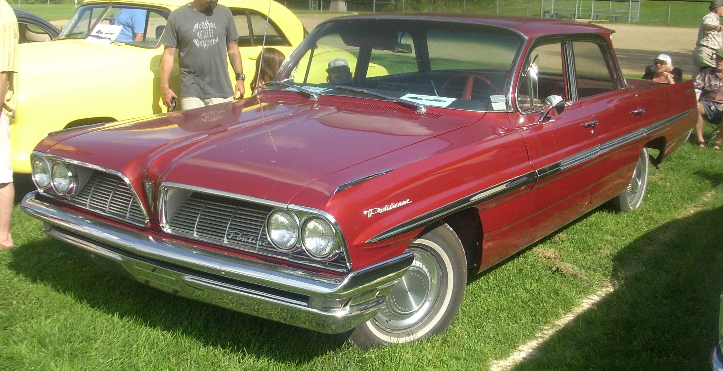 1961 Pontiac Parisienne sedan photographed at the Rassemblement Rigaud Car Show.